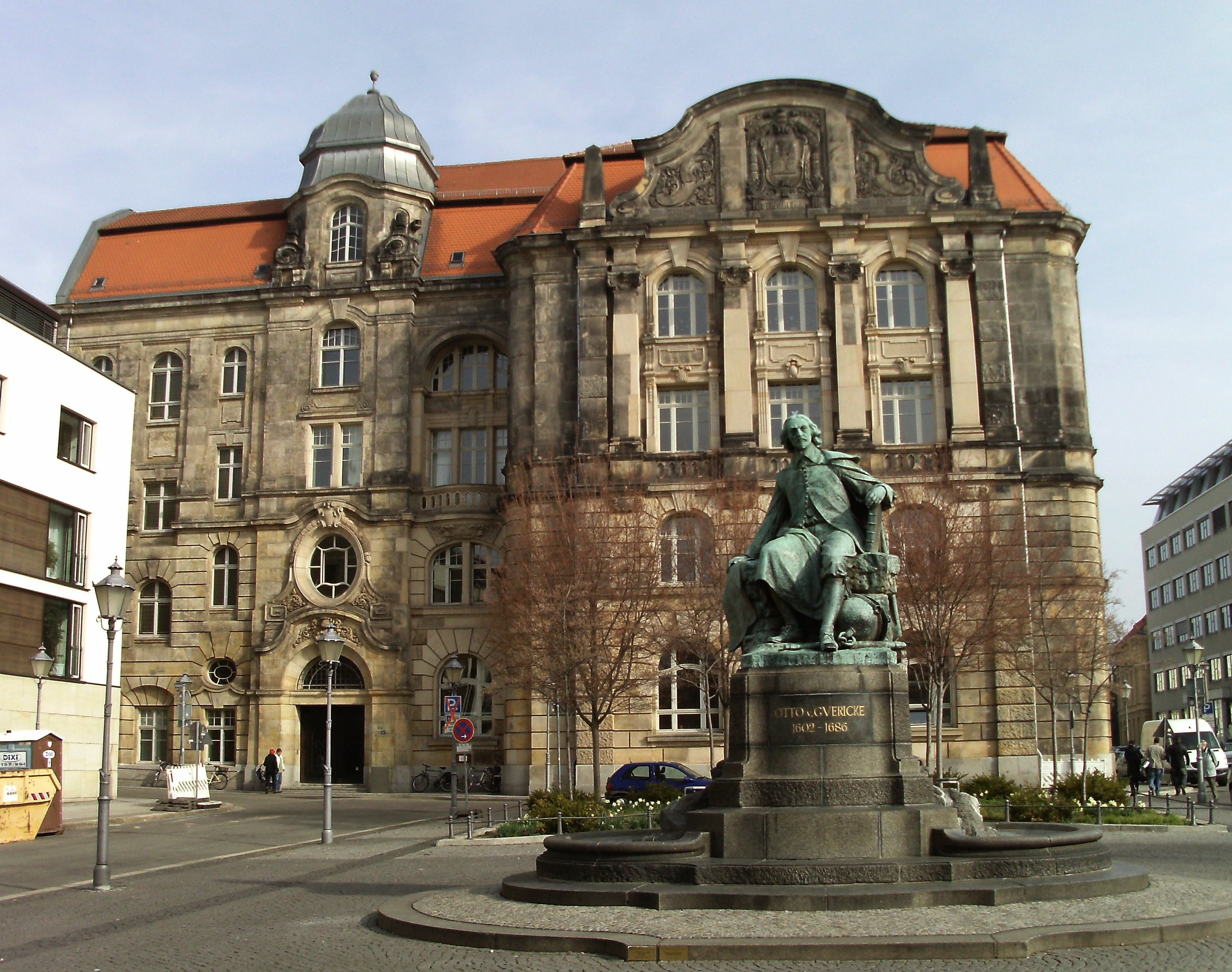 Memorial to Otto von Guericke and New Town Hall in Magdeburg